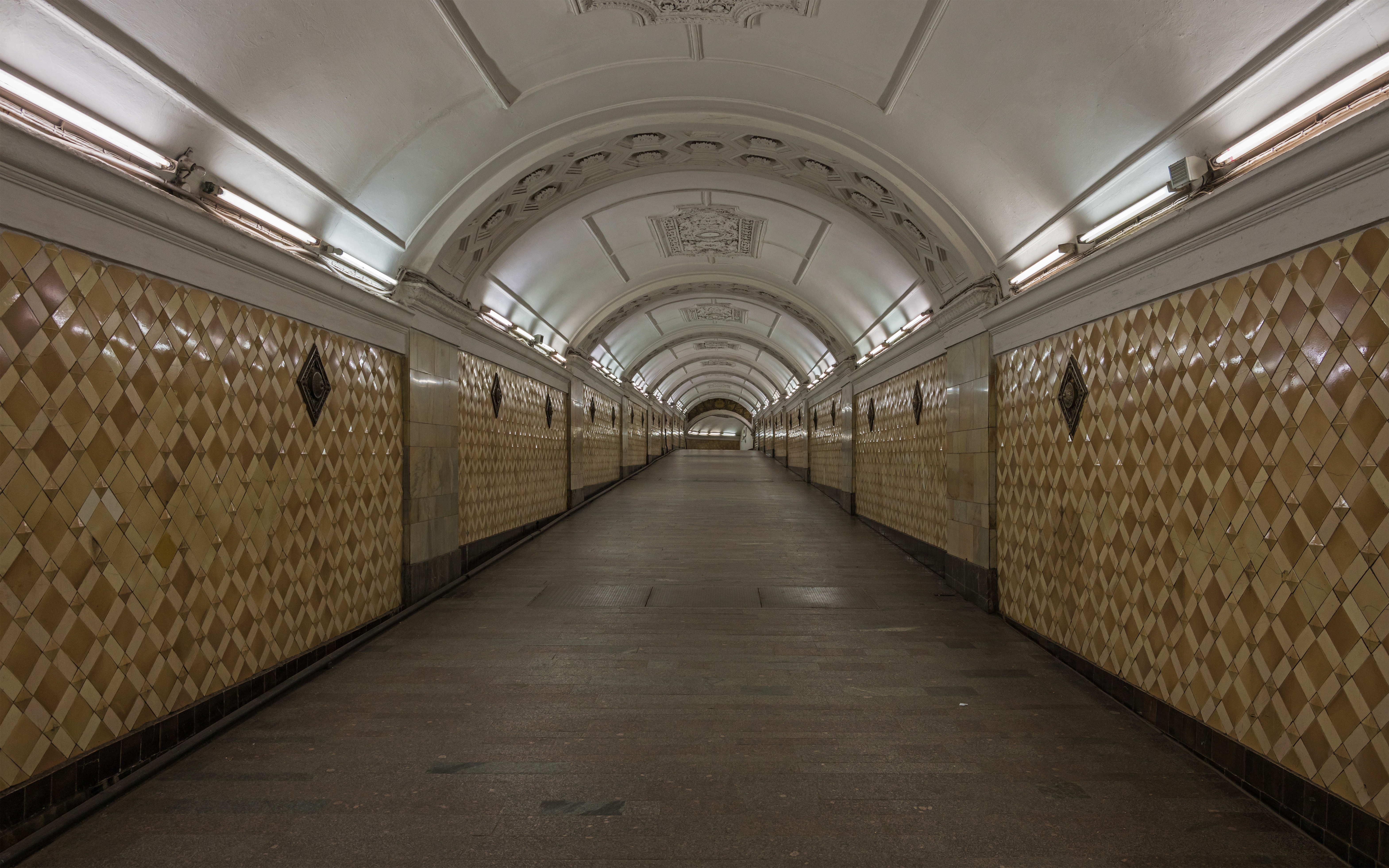 Old interchange tunnel between Teatralnaya and Ploschad Revolyutsii metro stations in Moscow